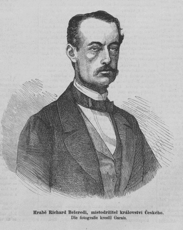 Count Richard Belcredi (1823 - 1902), as shown on the title page of Zlatá Praha magazine, 1st year, volume 12